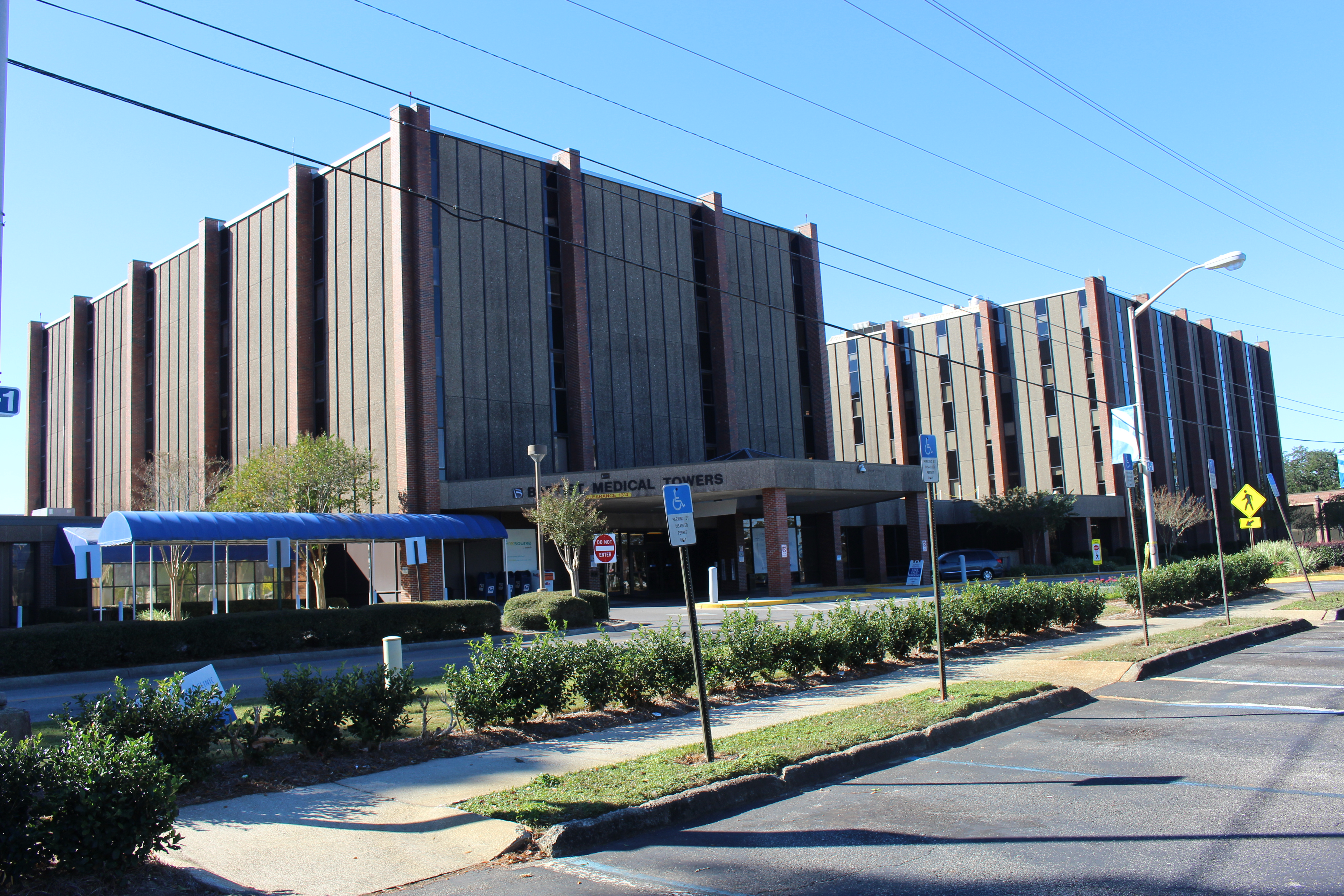 Pensacola, Escambia County, Florida